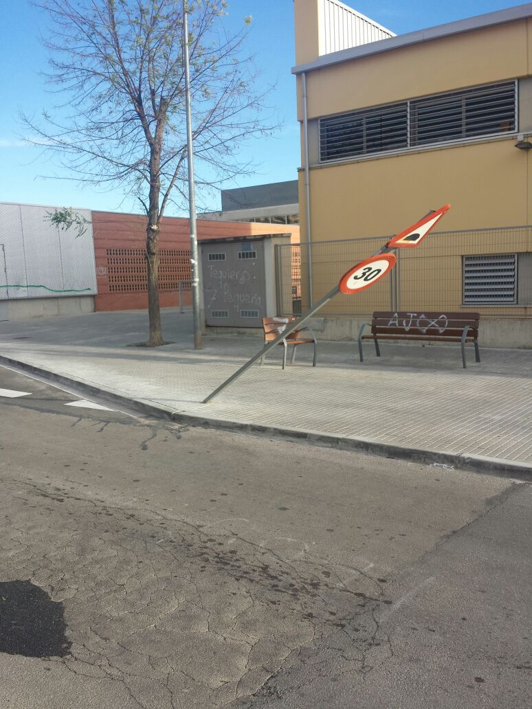 Wind storm Catalunya 2014